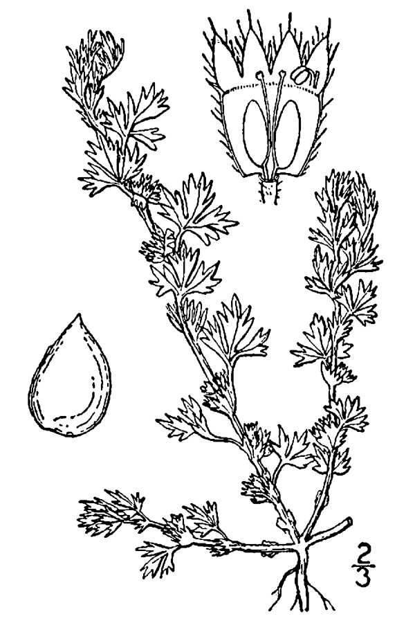 Aphanes arvensis L. - field parsley piert